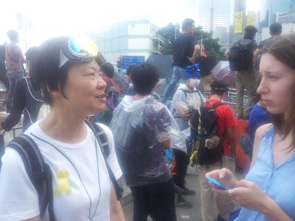 Civic Party Committee member and Former Legislator Audrey Eu Yuet-mee on Lung Wui Road near Tim Mei Avenue, Hong Kong, as democracy protester, 28 September 2014